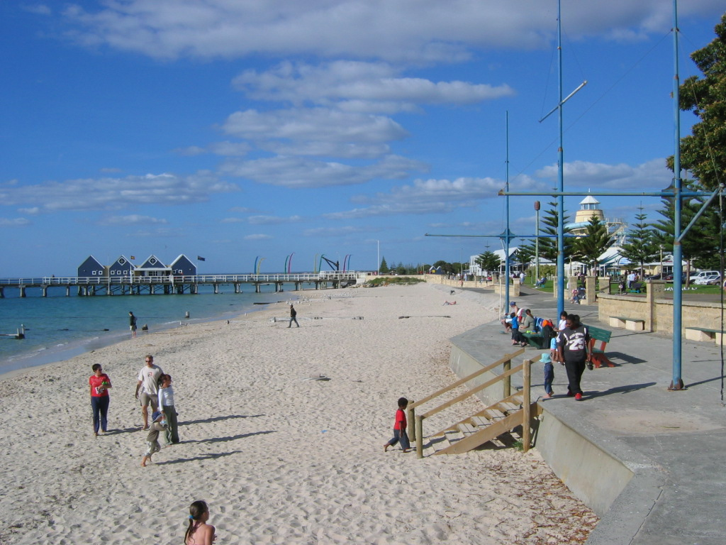 Beach in central Busselton, Western Australia.